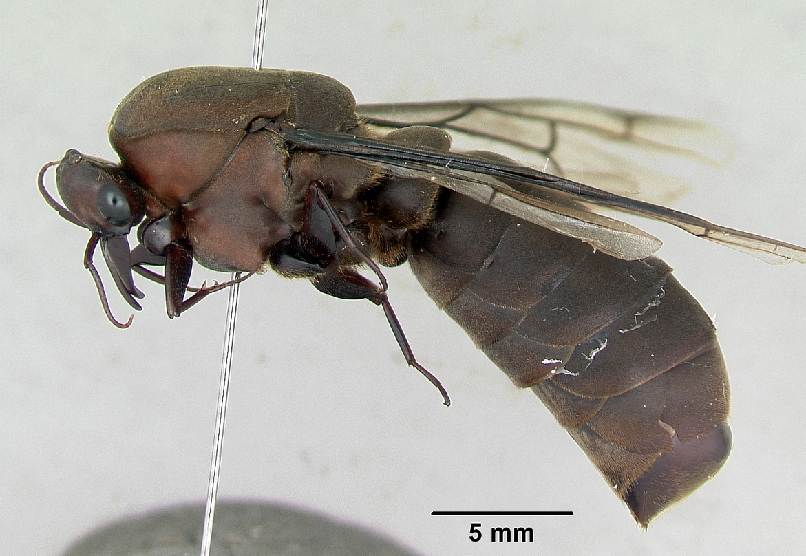 Profile view of ant Dorylus nigricans specimen casent0172641.